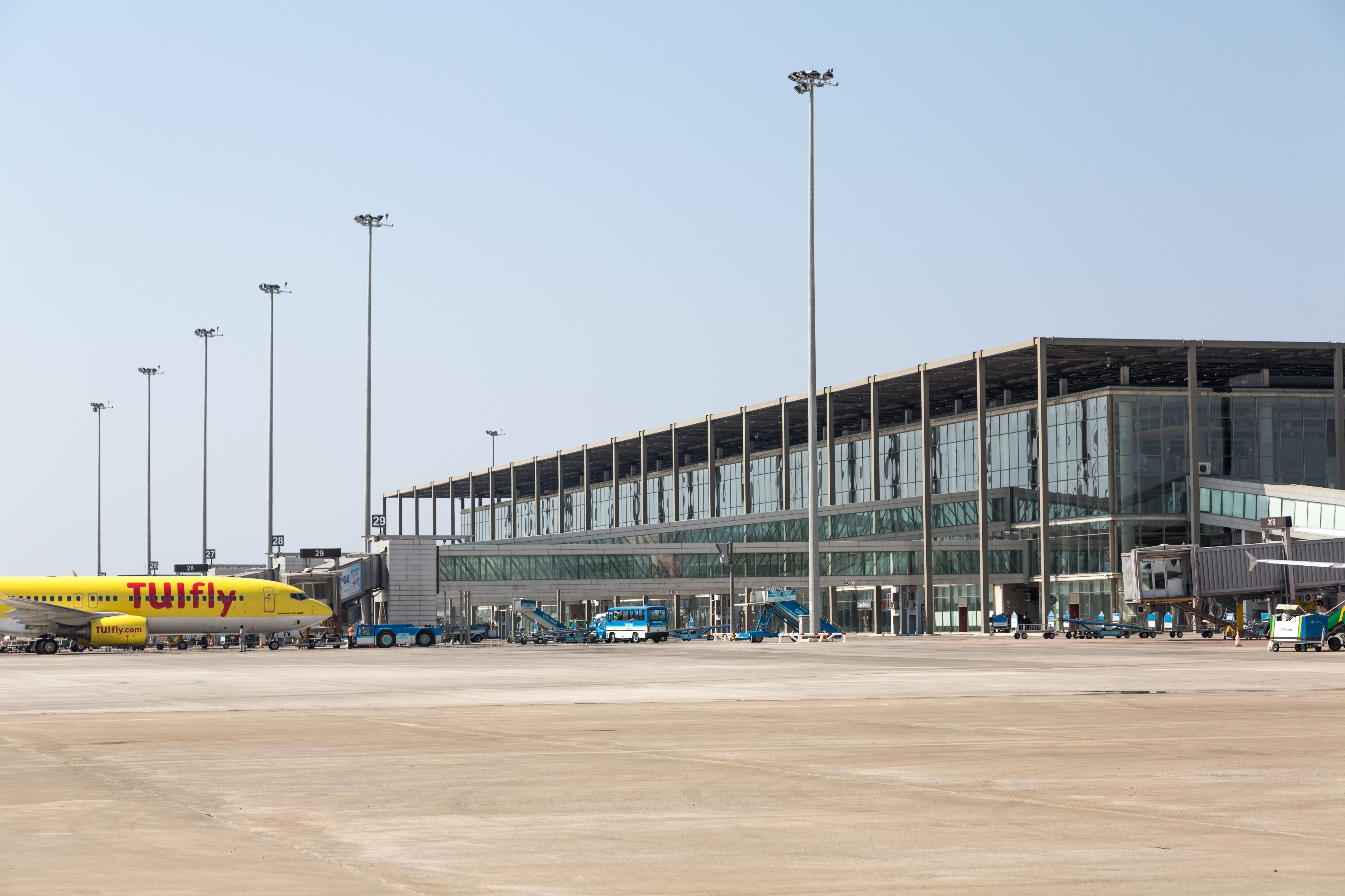 International Terminal shot from rampside